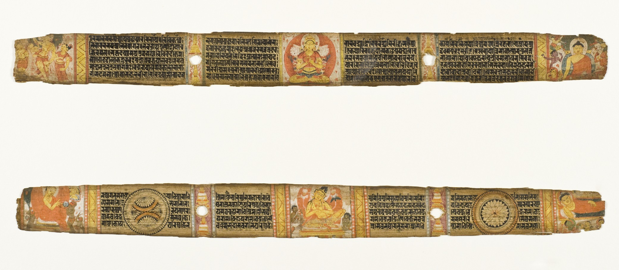 India, Bihar, Nalanda, circa 1075 Manuscripts Text: written in ink; illustrations: opaque watercolor on palm leaf From the Nasli and Alice Heeramaneck Collection, Museum Associates Purchase (M.72.1.20a-b) South and Southeast Asian Art